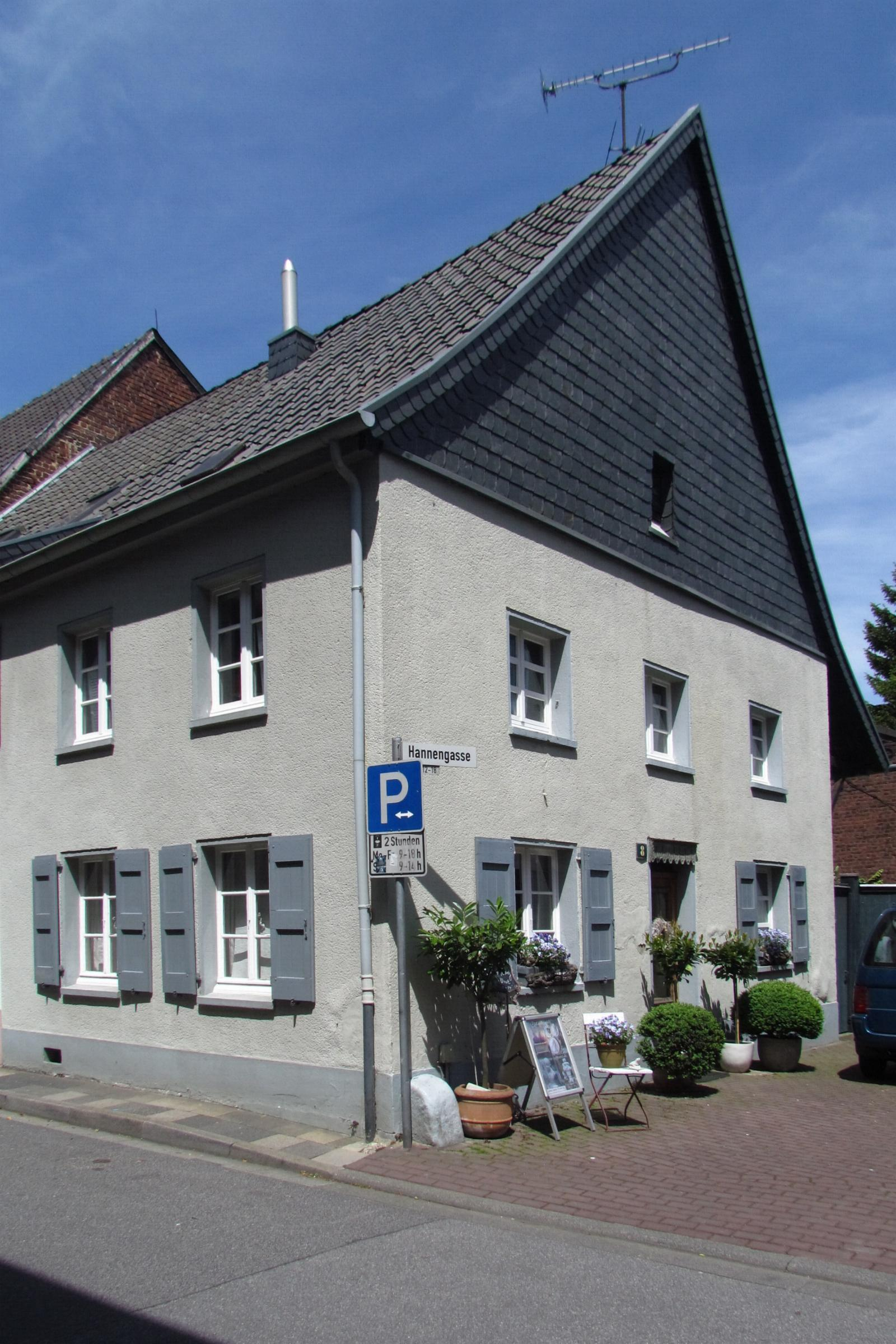 This is a photograph of an architectural monument.It is on the list of cultural monuments of Korschenbroich